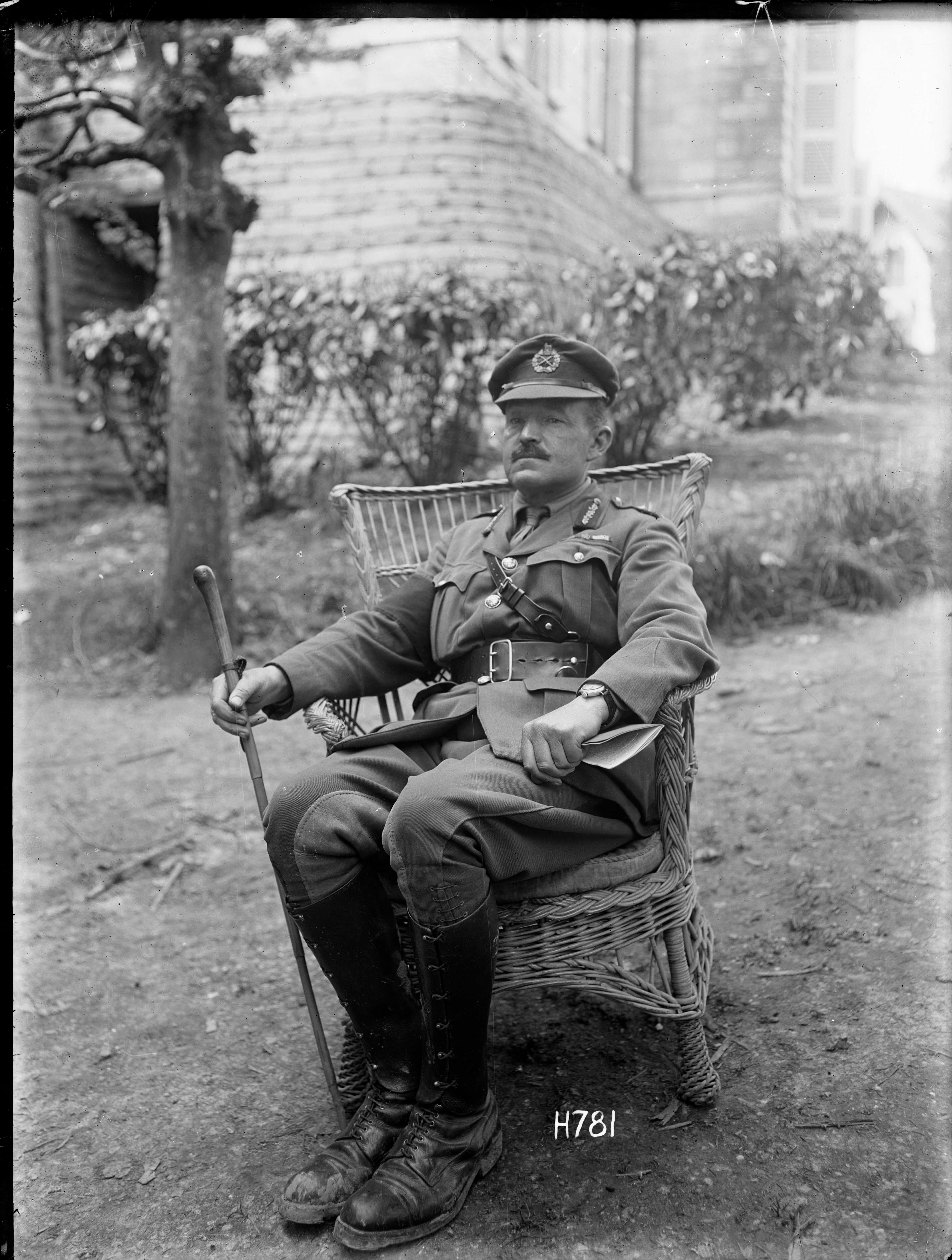 Major-General Andrew Hamilton Russell in full army uniform seated in a wicker chair at New Zealand Divisional Headquarters during World War I. Photograph taken at Bus-les-Artois, France, on 21 May 1918. Royal New Zealand Returned and Services' Association :New Zealand official negatives, World War 1914-1918. Ref: 1/1-002064-G. Alexander Turnbull Library, Wellington, New Zealand.